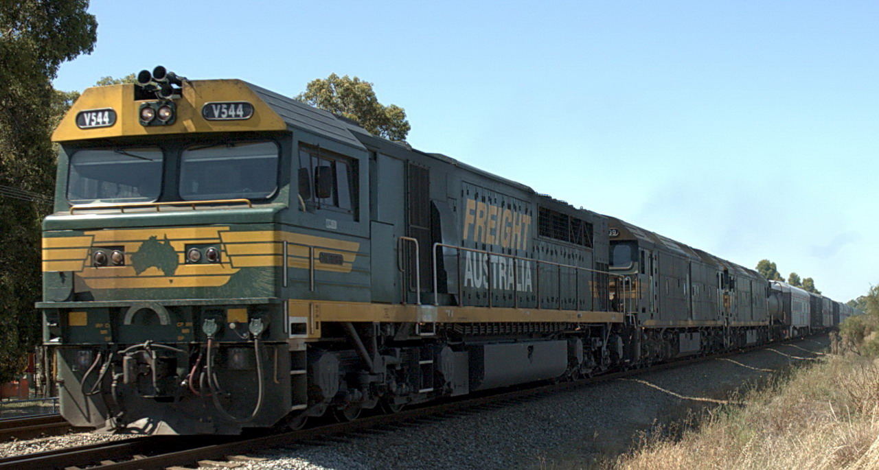 Freight Australia SCT train V544/G538/G539 in the Swan Valley, Western Australia.